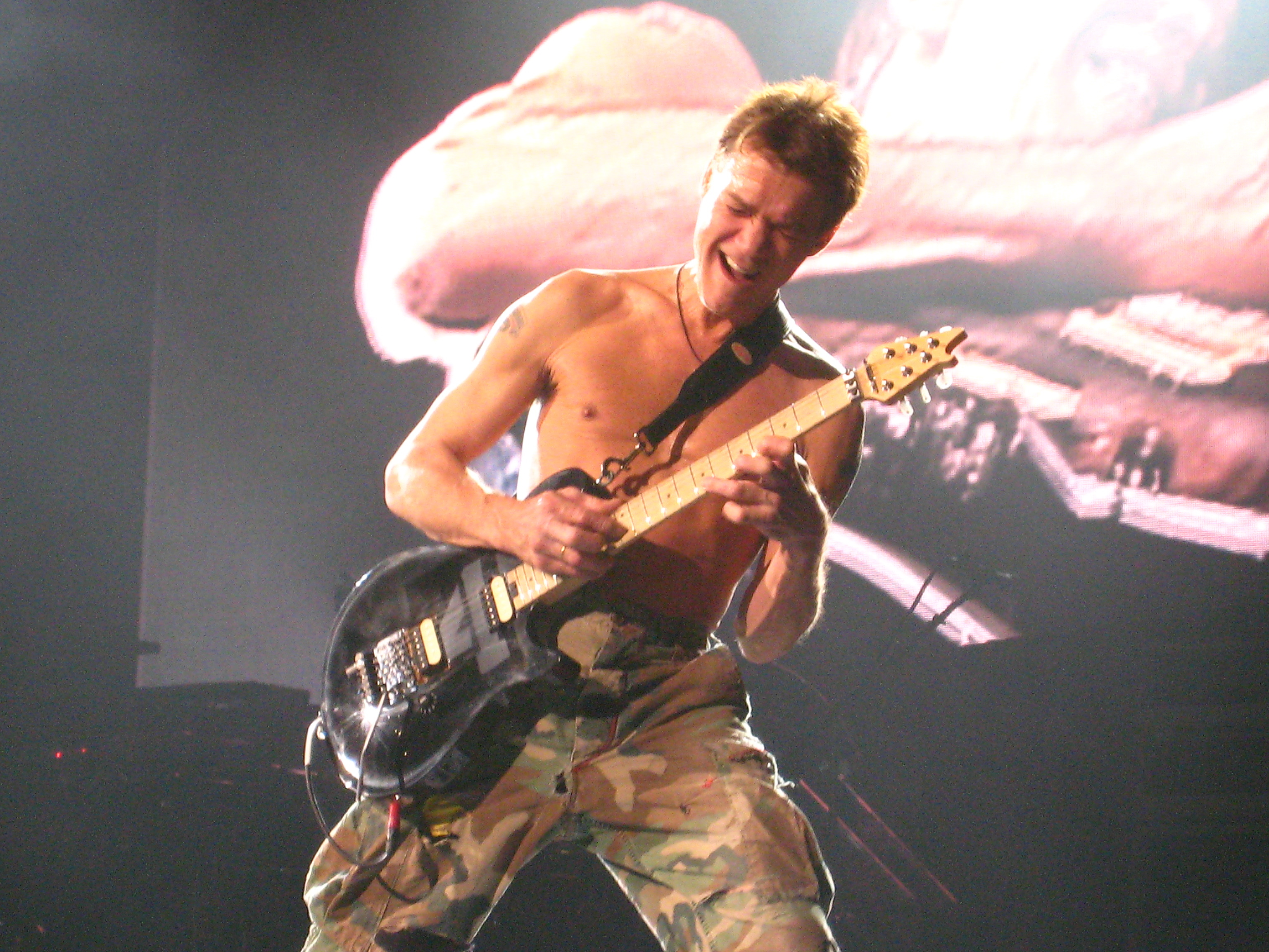 Eddie Van Halen shredding his guitar while playing Eruption. Taken at The Van Halen Tour featuring David Lee Roth (lead vocals), Eddie Van Halen (guitars), Wolfgang Van Halen (bass) and Alex Van Halen (drums). The concert was held at Bell Center, Montreal on 10th November, 2007.